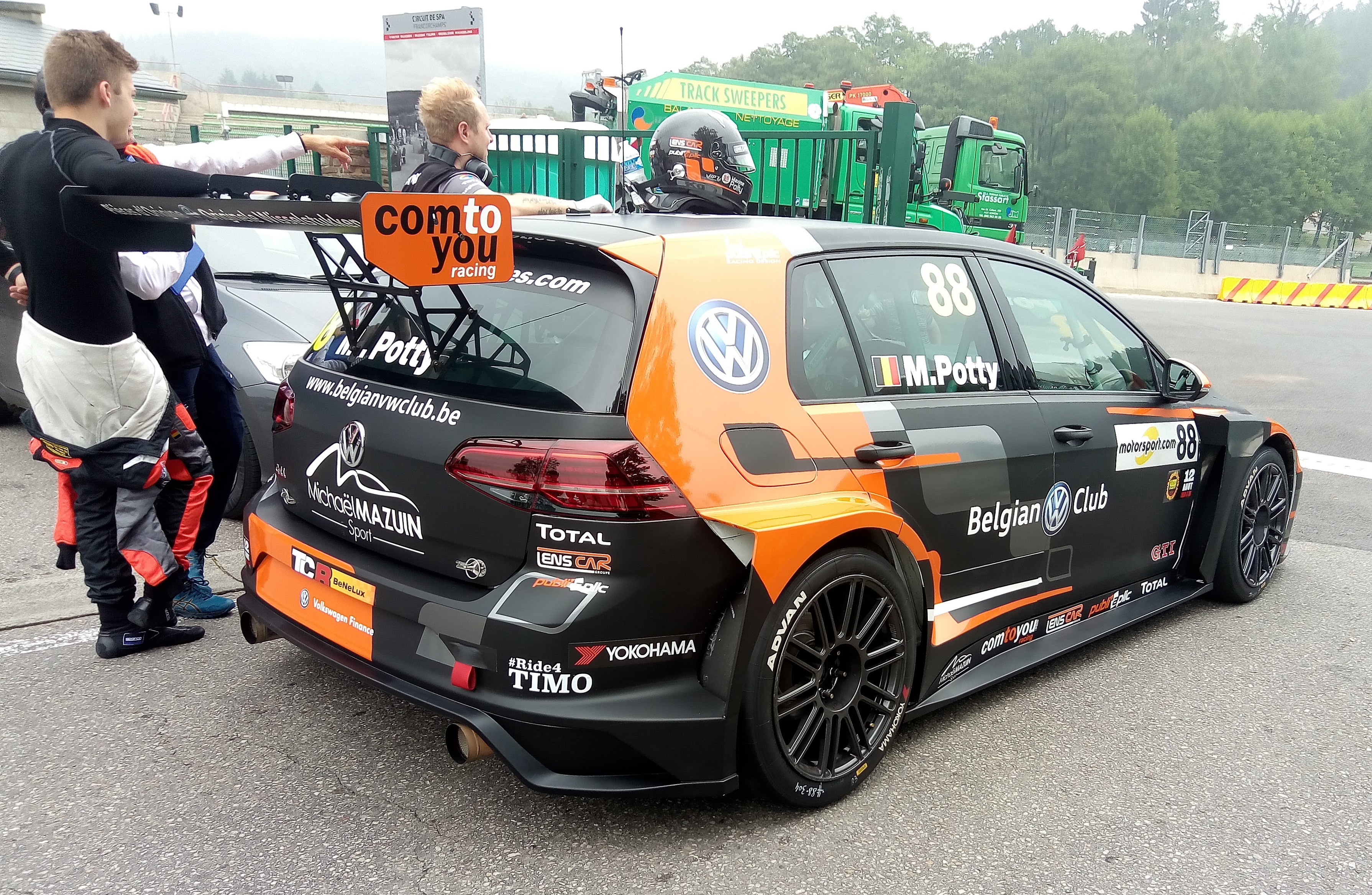 Maxime Potty (Comtoyou Racing) at the 2018 TCR Europe Series round at Spa-Francorchamps.